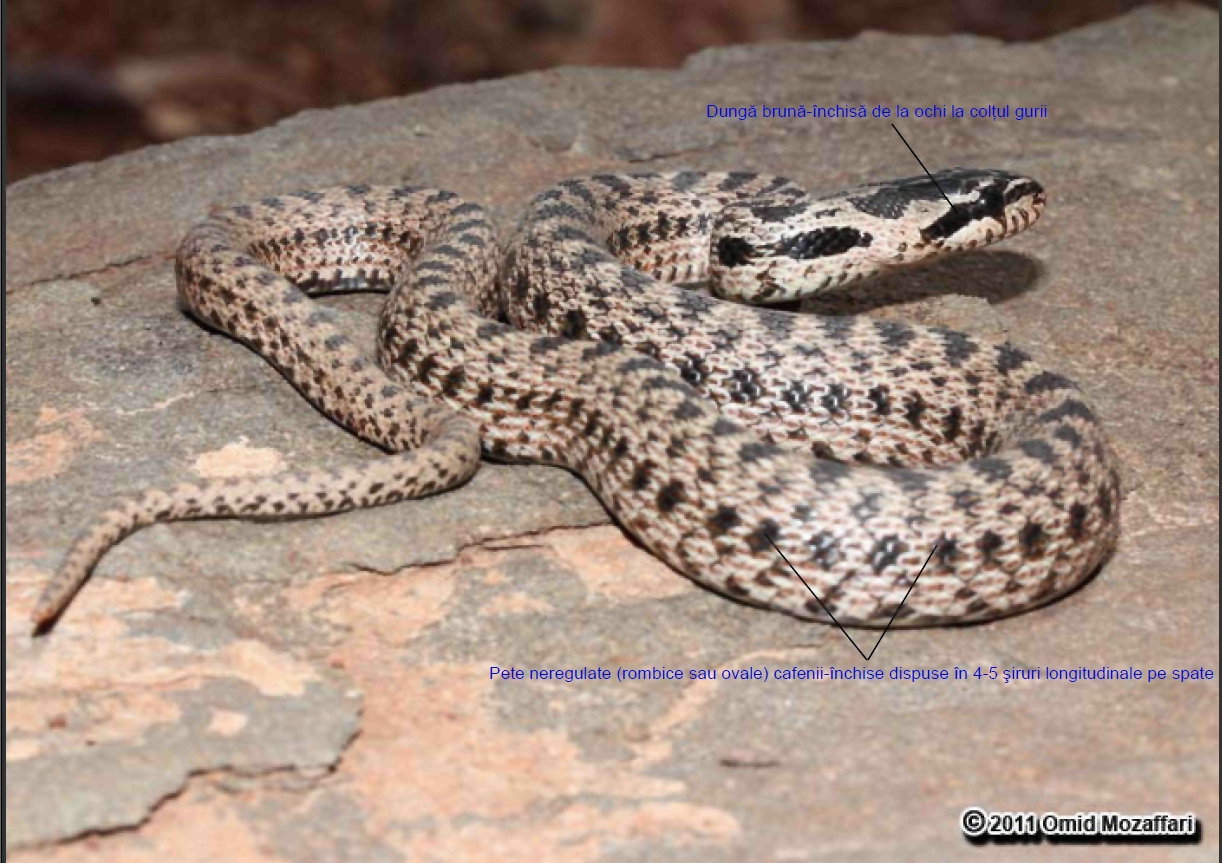 Elaphe sauromates adapted from File:Elaphe sauromates by Omid Mozaffari(3).jpg